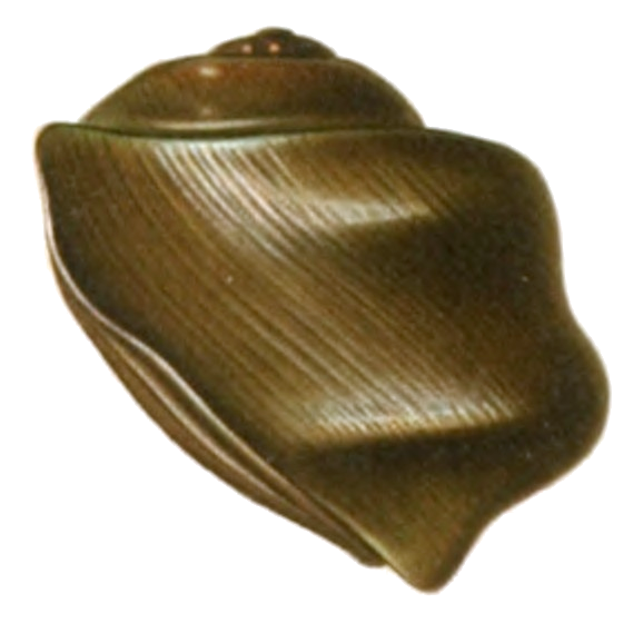 Drawing of a lateral view of the shell of Potamolithus rushii.